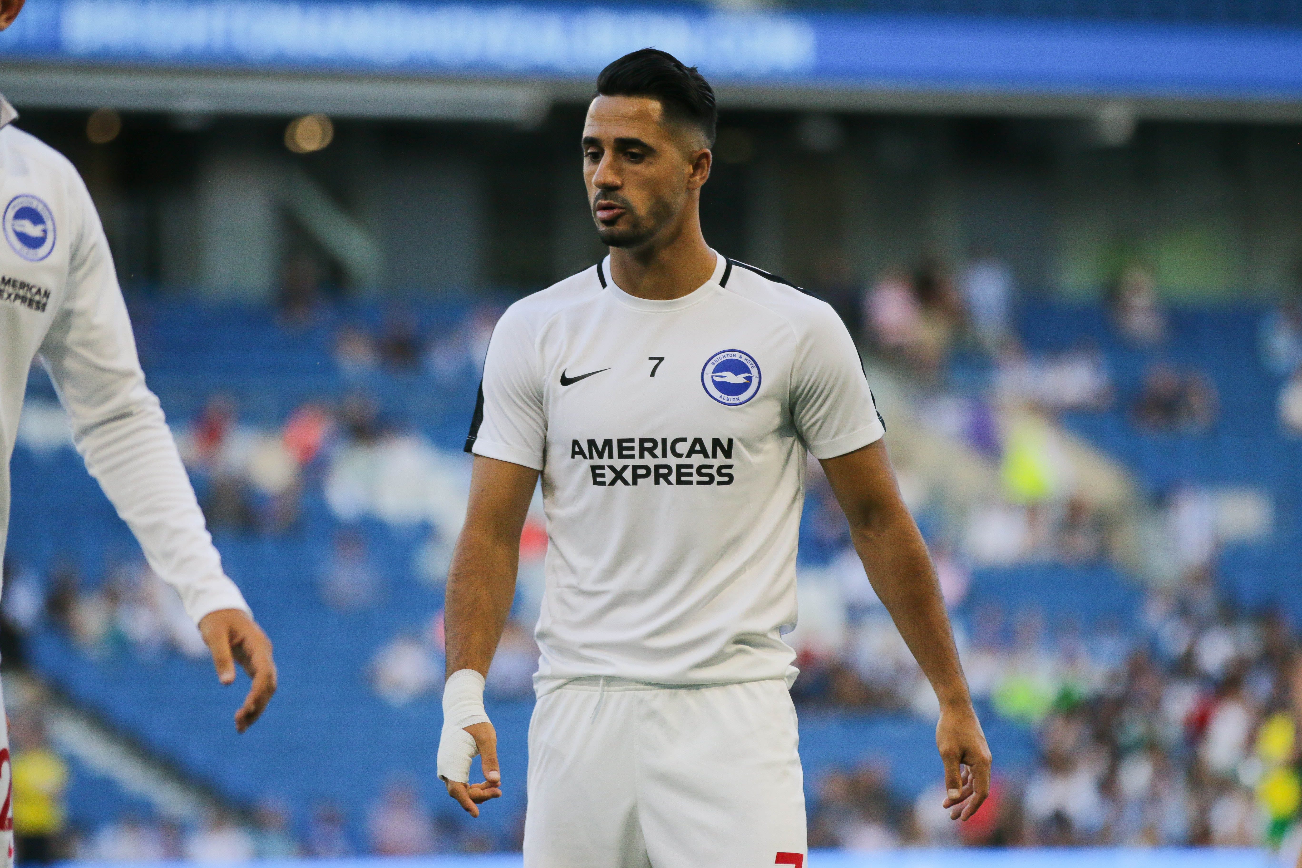 BHA v FC Nantes pre season 03 08 2018-18.jpg